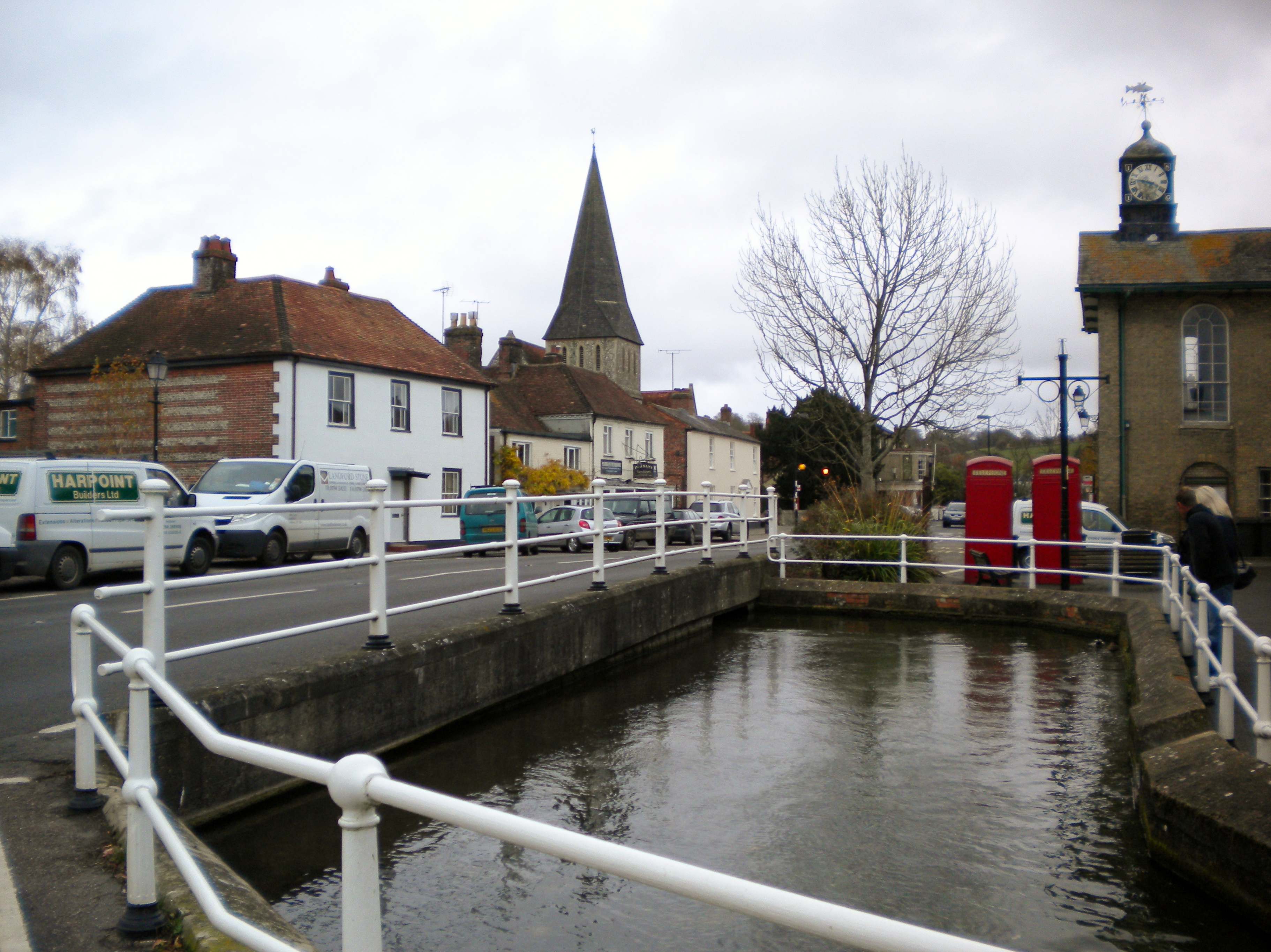 The Street, Stockbridge, Hampshire, England.